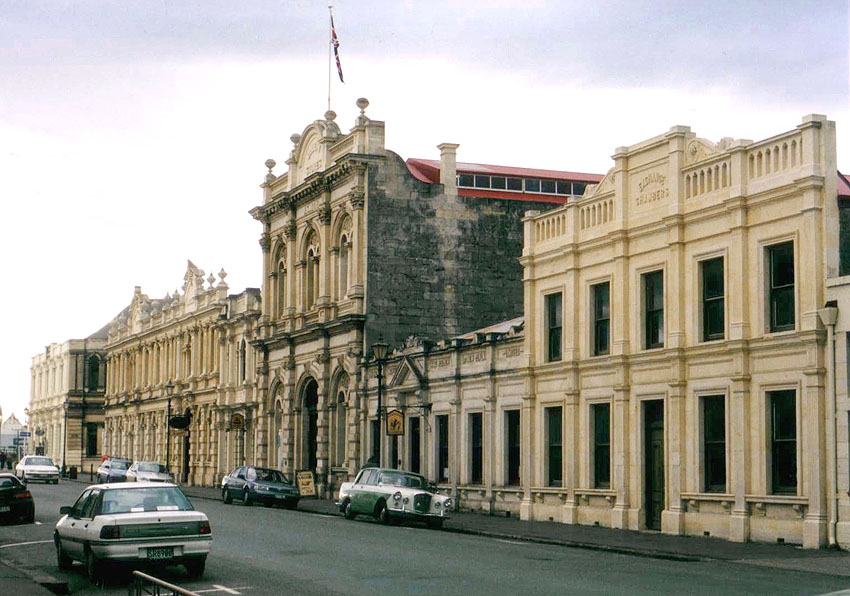 Part of the Historic Precinct, on Tyne Street, Oamaru, New Zealand. All six of these buildings are listed with the New Zealand Historic Places Trust.